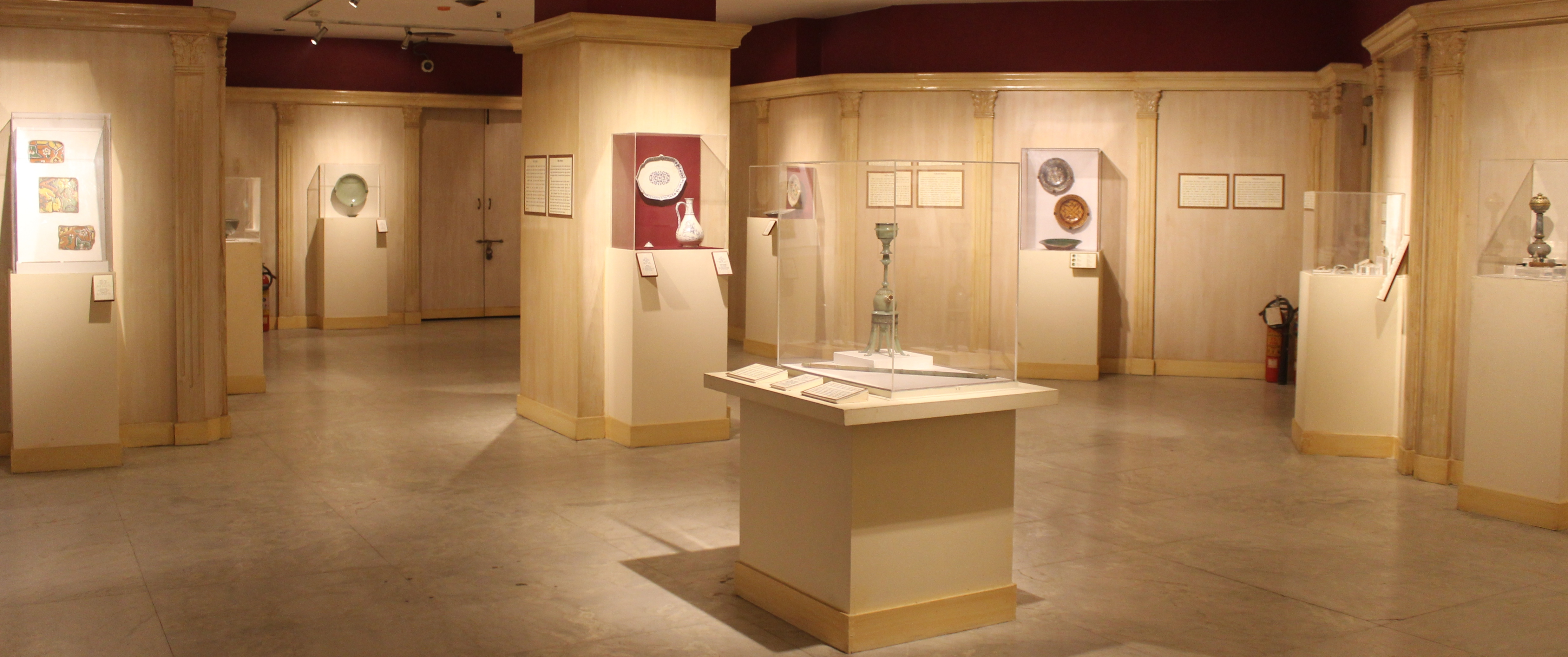 A view of the Decorative Arts Gallery 2